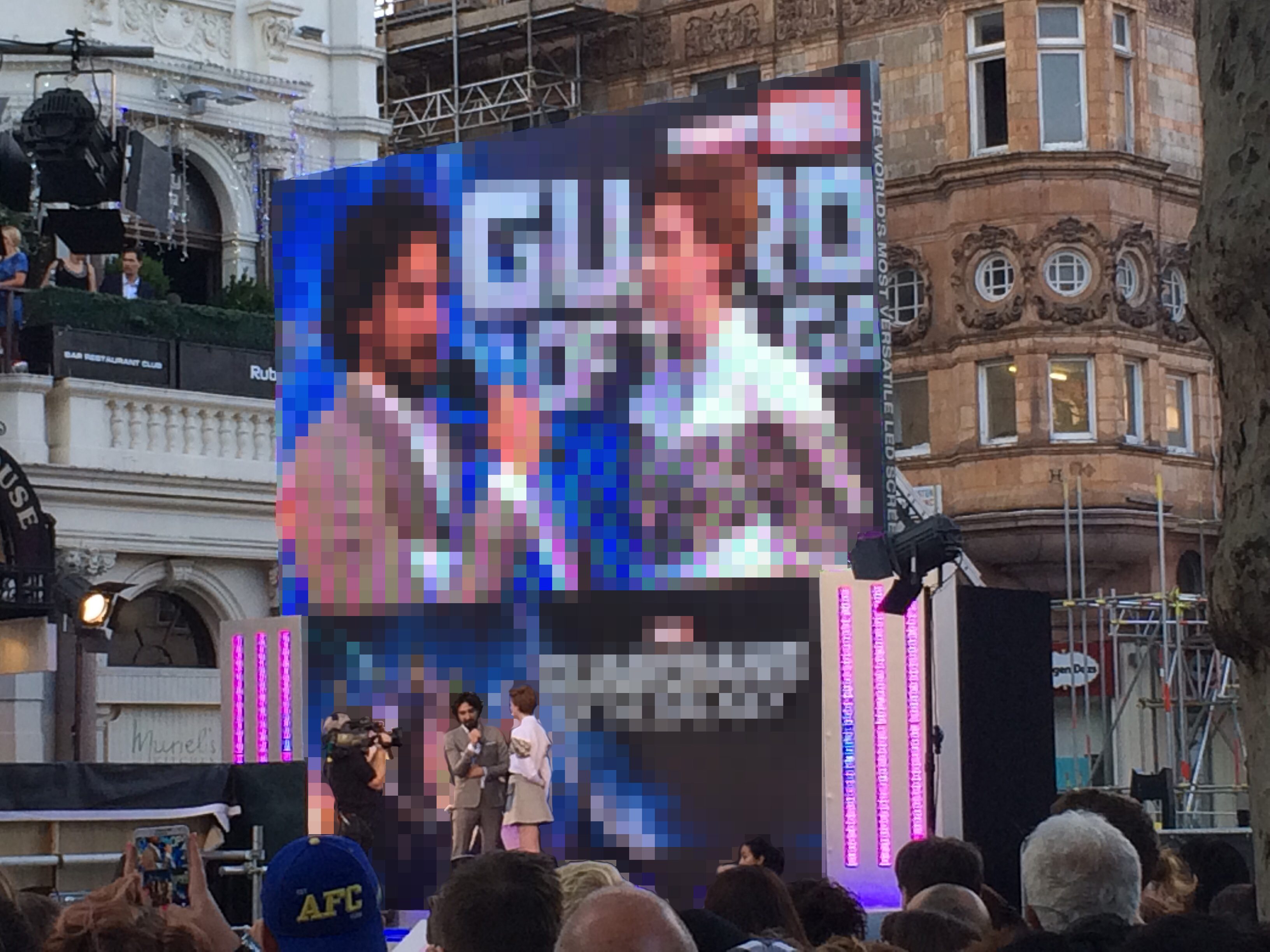 Alex Zane interviewing Karen Gillan at the London premiere of Guardians of the Galaxy.